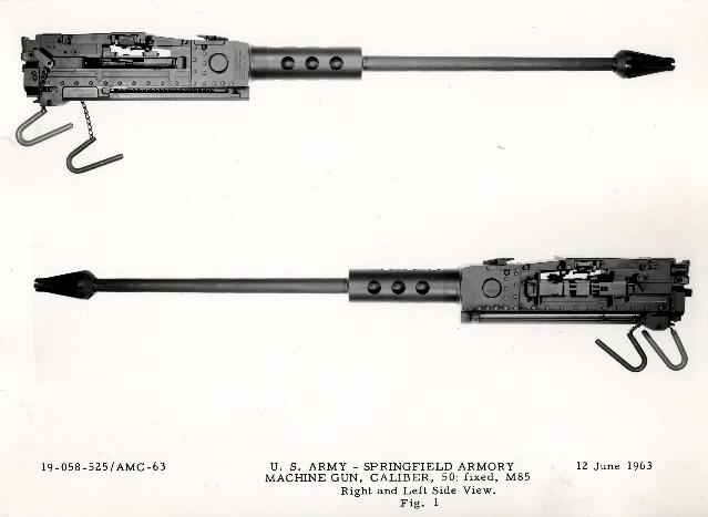 Machine Gun, Caliber. 50. Fixec M85, Springfield Armory